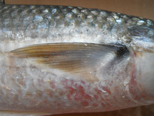 Liza ramada bought in Grosseto fish market (Tuscany, Italy).